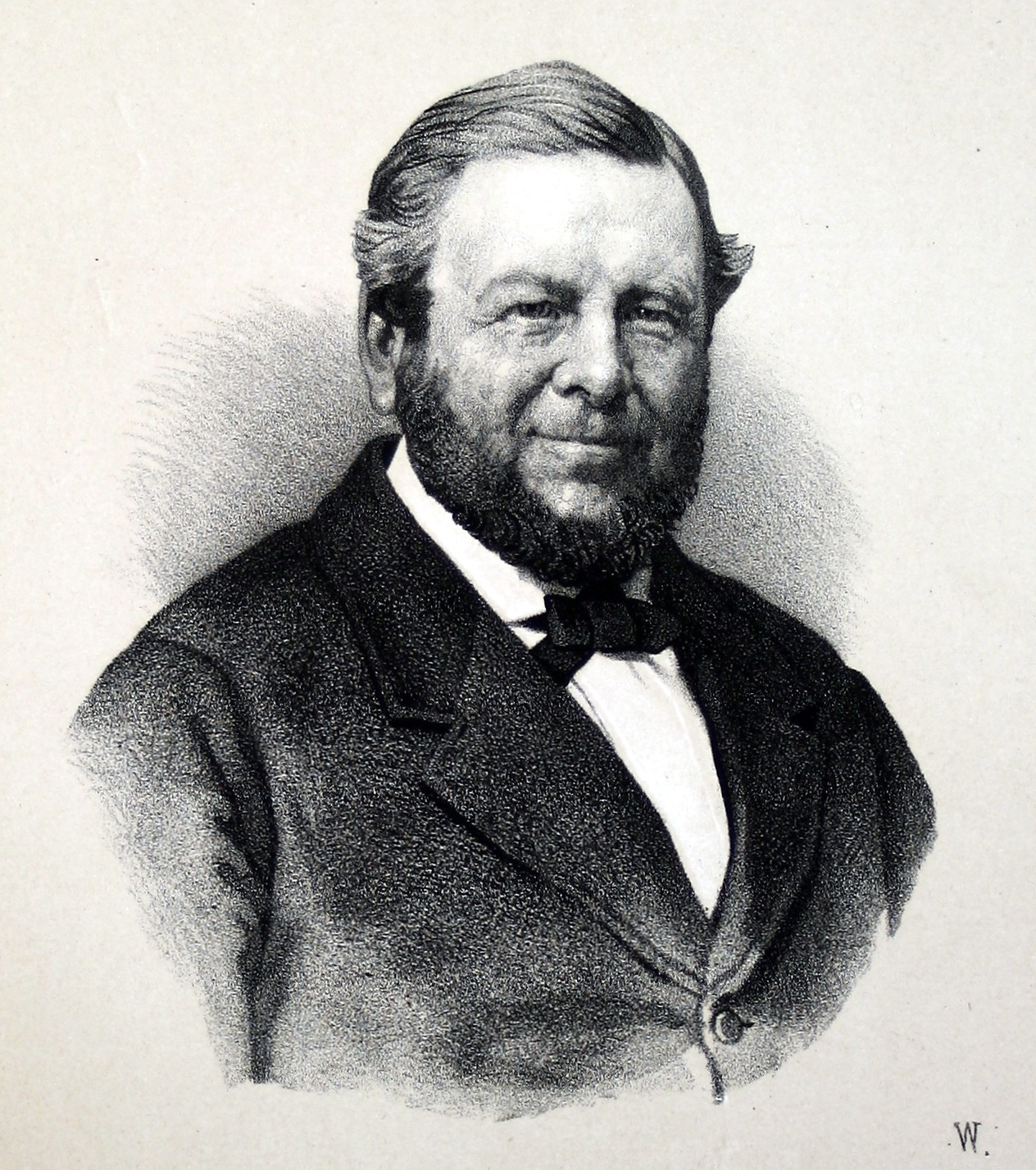 Portrait of Göran Fredrik Göransson from the book "Svenska industriens män" (1875)